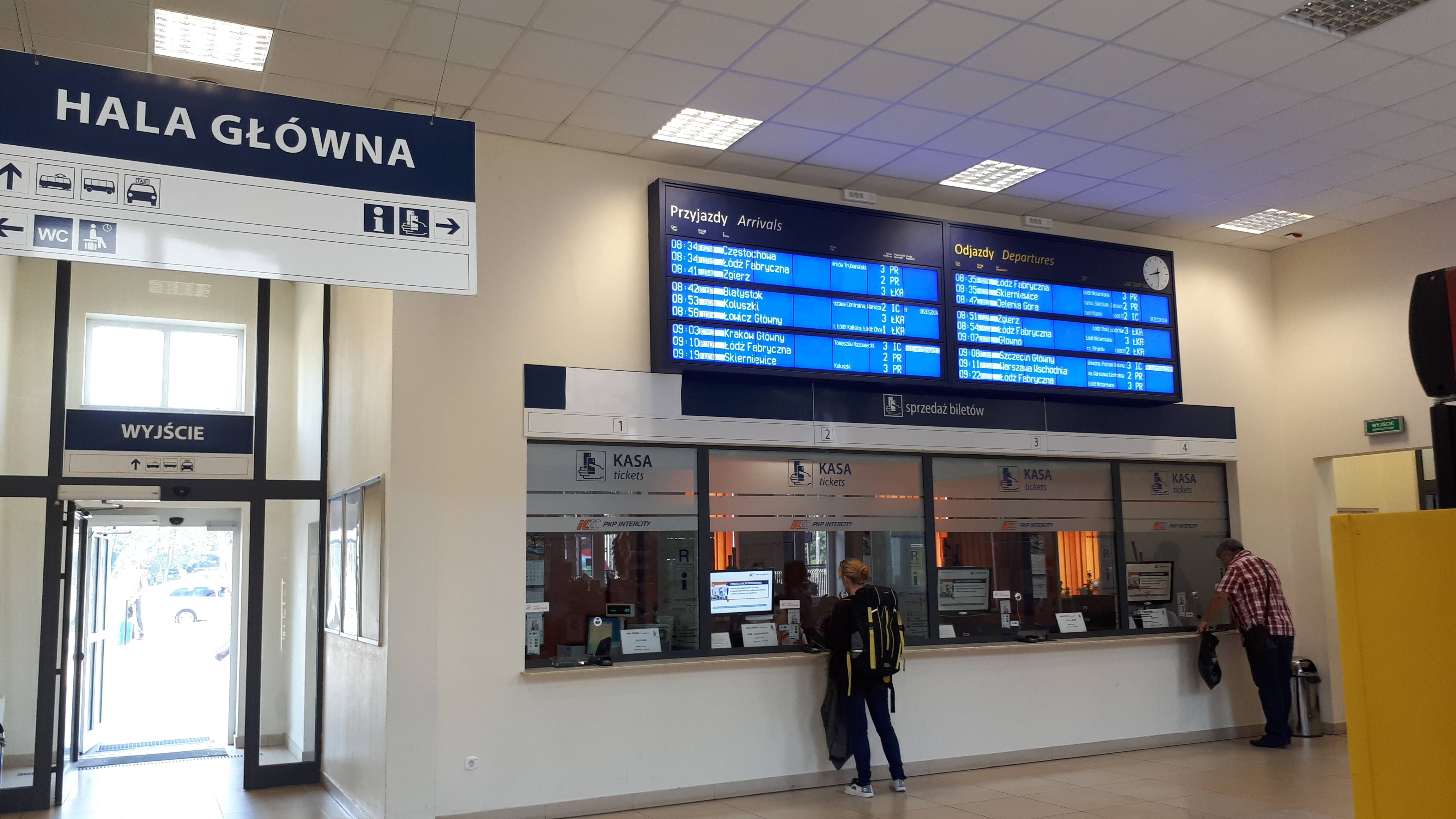 Lodz Widzew, September 2018